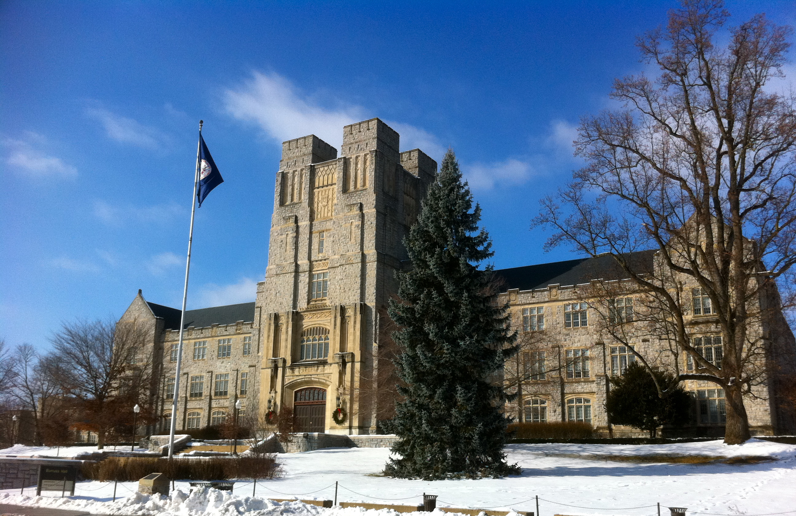 Virginia Tech's Burruss Hall after a fresh snowfall.